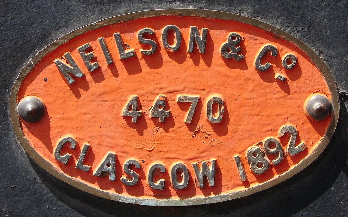 Ex Cape Government Railways Class 7 345 (4-8-0)South African Railways Class 7 976 (4-8-0) works plateBuilder's Number: Neilson 4470Location: Klerksdorp, North West